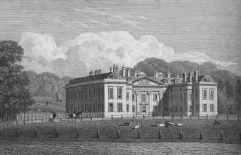 Althorp House